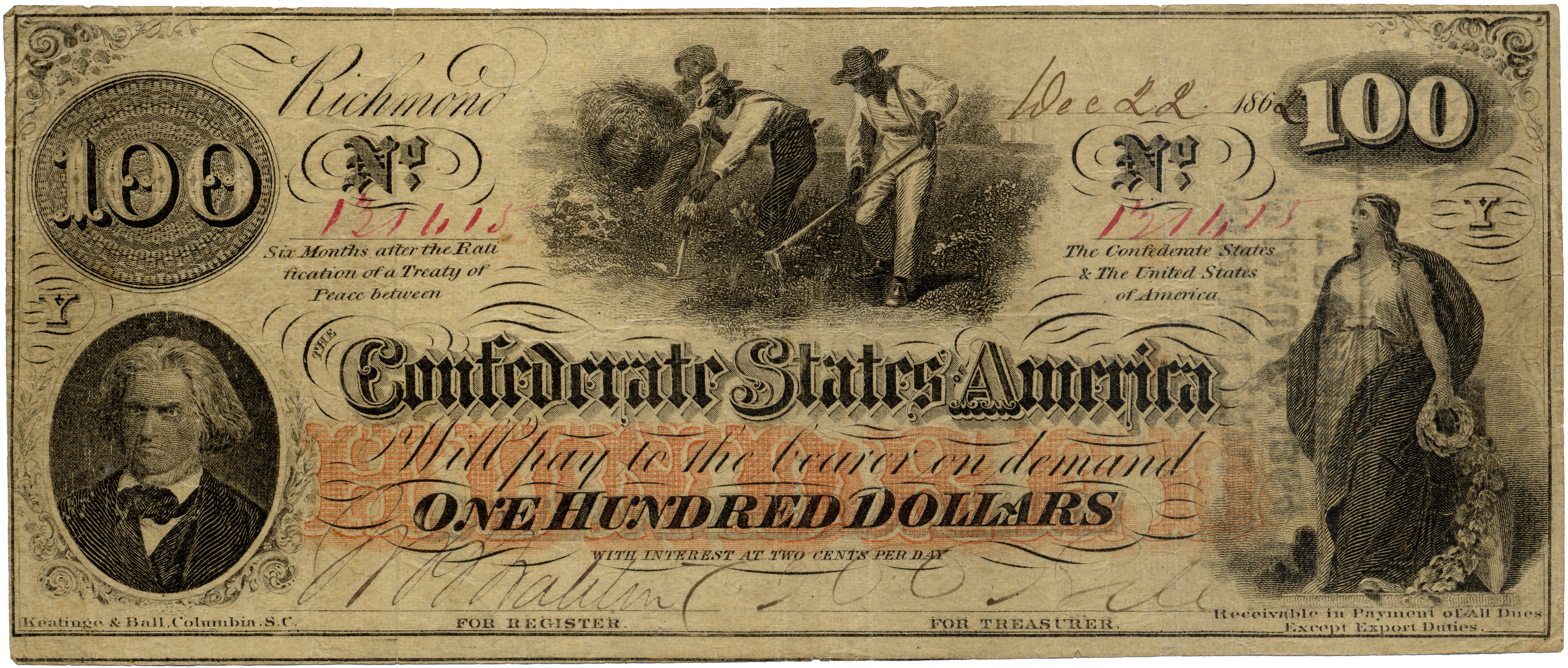 A One Hundred Dollar Confederate States of America banknote dated December 22, 1862. Issued during the American Civil War (1861–1865). Slave hoeing cotton in the center with John C. Calhoun on the left and Columbia on the right. Over 670,000 of these notes were issued from August, 1862 to January, 1863. [1] The bill is 7.375 by 3.125 inches (187 mm by 79 mm) and is thinner than a modern US dollar. Annotations on the banknote. Serial number 131615 Keatinge & Ball, Columbia, S.C. (lower left) Receivable in Payment of All Dues Except Export Duties. (lower right) Issued by Maj. James Glover, q.m. 26th January 1863 (hand written on back) Interest Paid to 1st January 1864 at Richmond. (stamped on back) The ink from this stamp can be seen on the front right side.